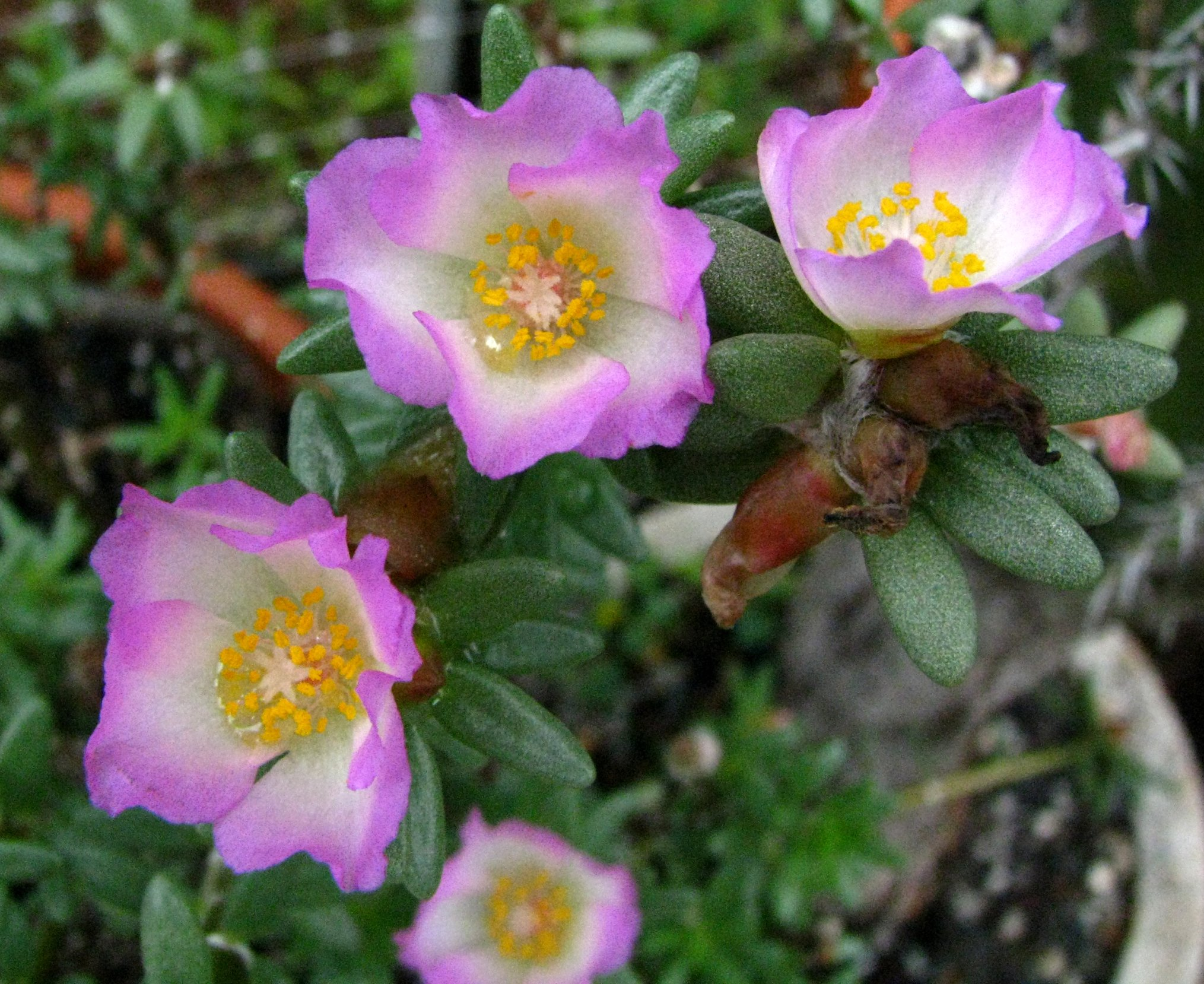 ʻIhi or Hairy purslane Portulacaceae Endemic to the Hawaiian Islands Vulnerable Oʻahu (Cultivated)